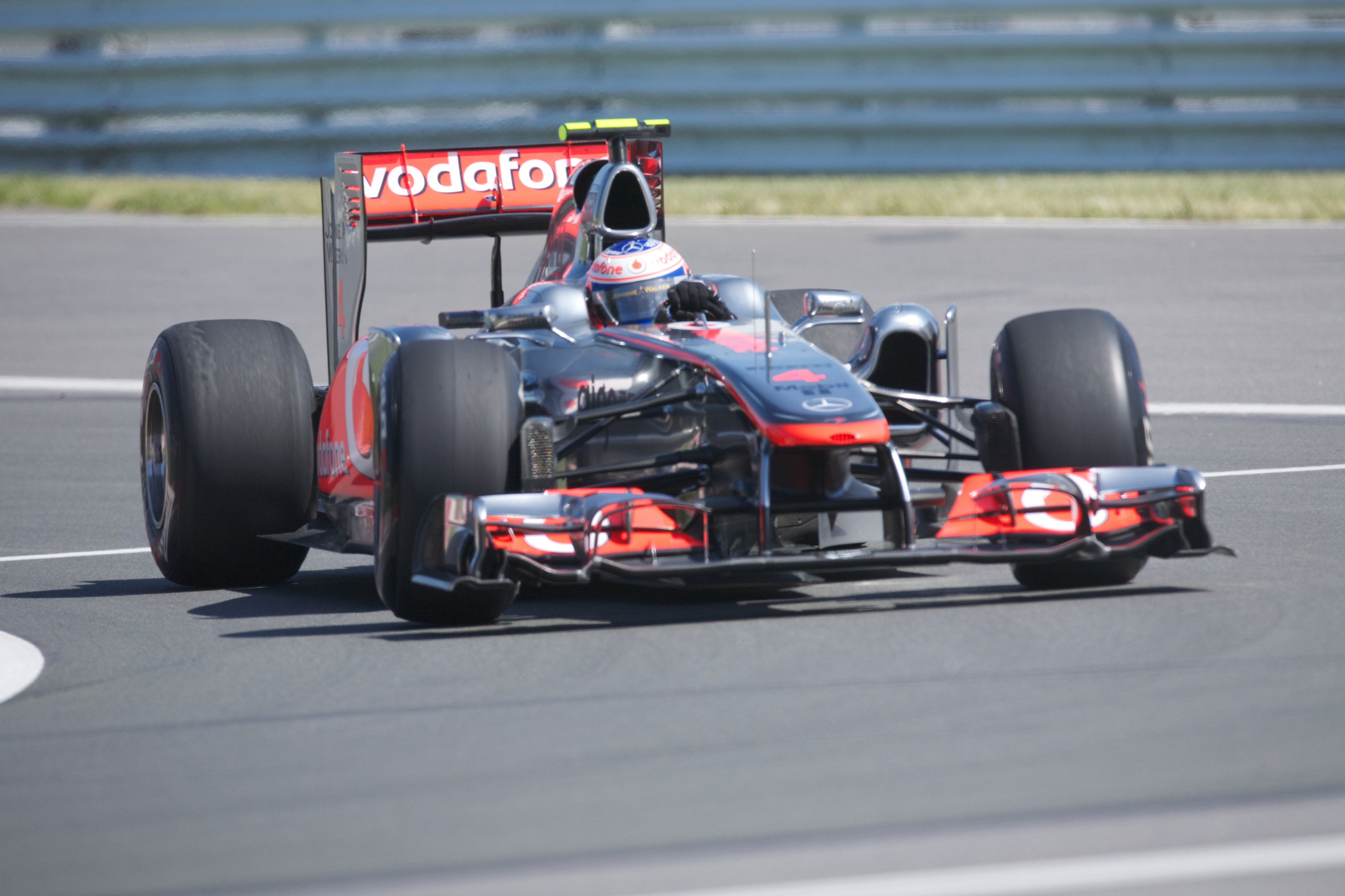 2011 Canadian Grand Prix